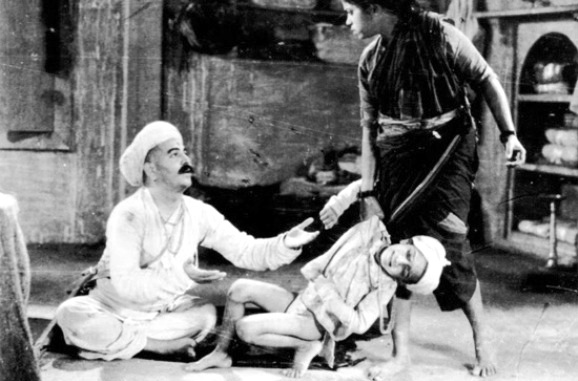 Sant-tukaram